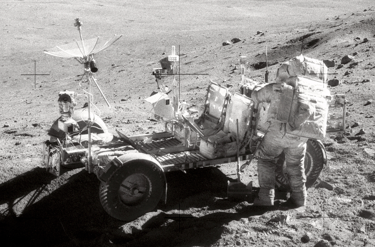 Astronaut John W. Young, Commander of the Apollo 16 mission, replaces tools in the hand tool carrier at the aft end of the "Rover" Lunar Roving Vehicle (LRV) during the second Apollo 16 extravehicular activity (EVA-2) at the Descartes landing site. This photograph was taken by Astronaut Charles M. Duke Jr., Lunar Module pilot. Smokey Mountain, with the large Ravine crater on its flank, is in the left background. This view is looking Northeast.